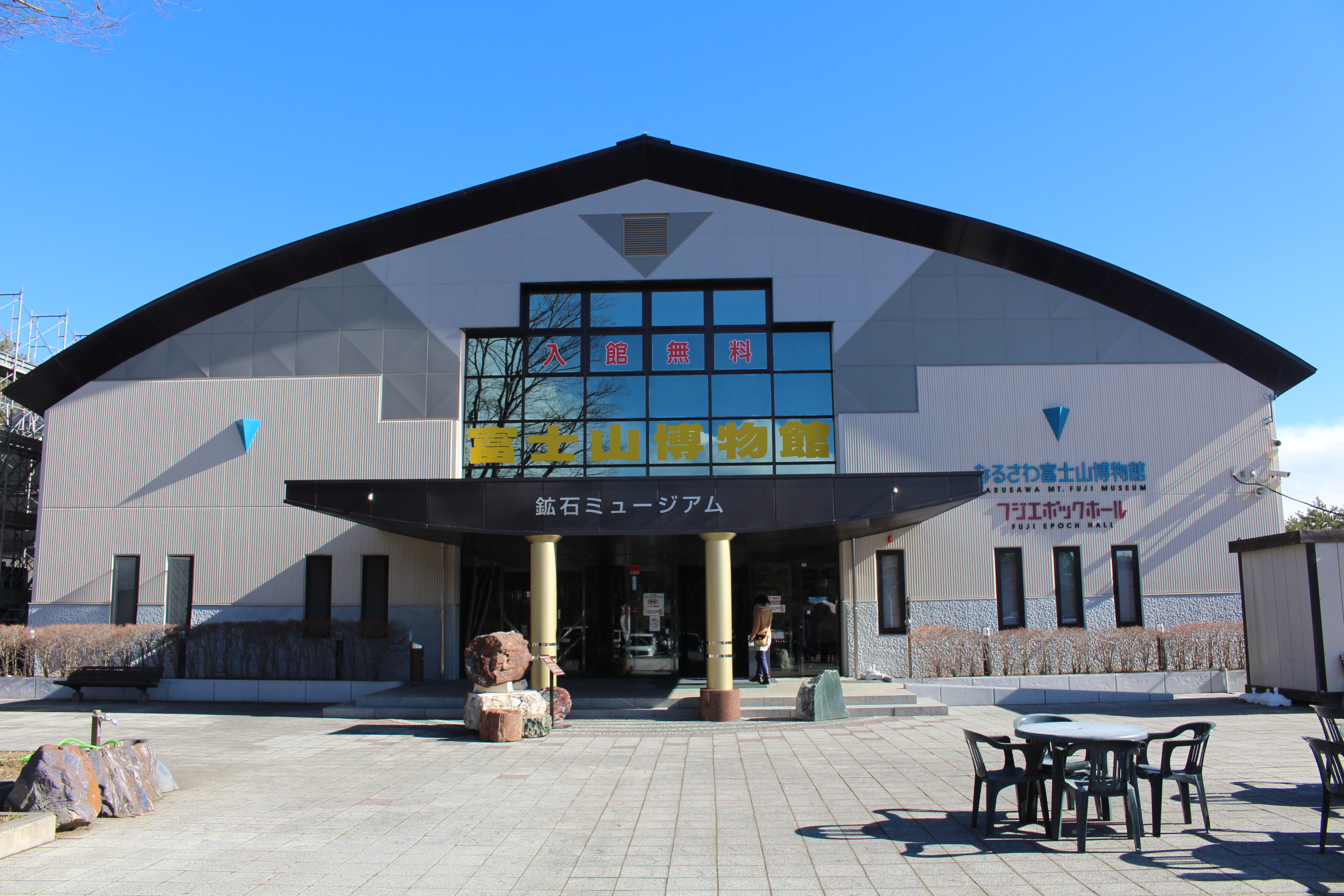 NARUSAWA MT. FUJI MUSEUM in Michinoeki Narusawa, Narusawa, Yamanashi Prefecture, Japan.